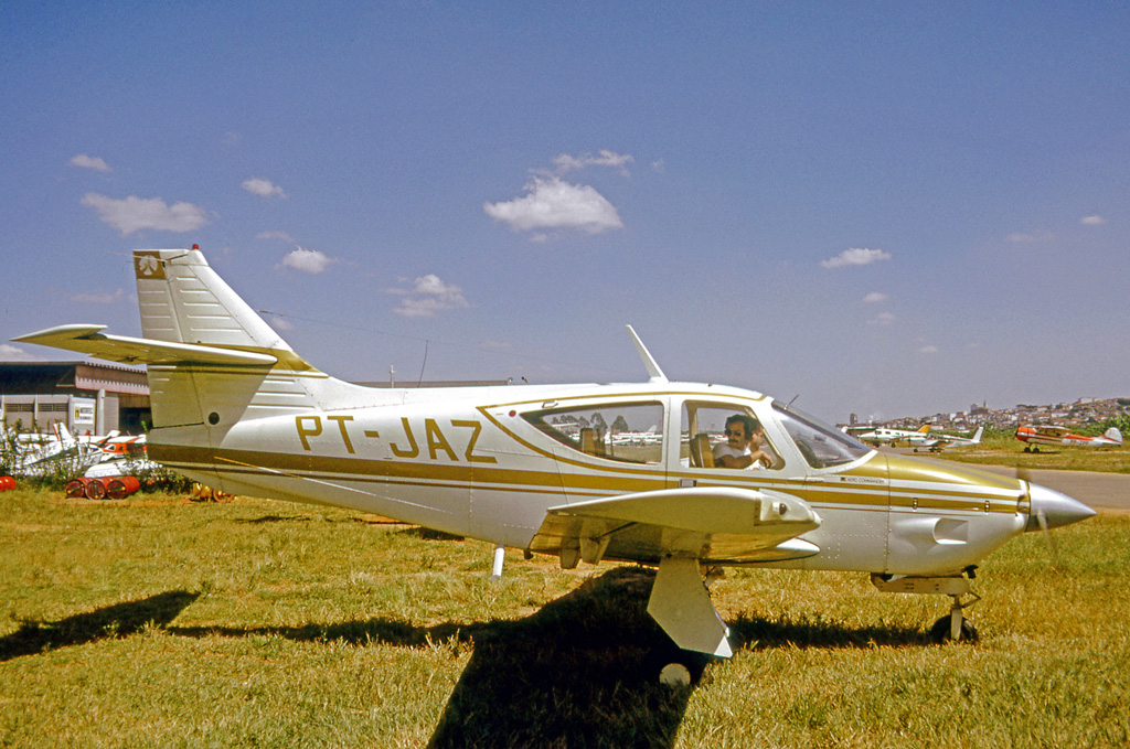 Rockwell Commander 112 PT-JAZ at Sao Paulo Campo de Marte airfield in 1975